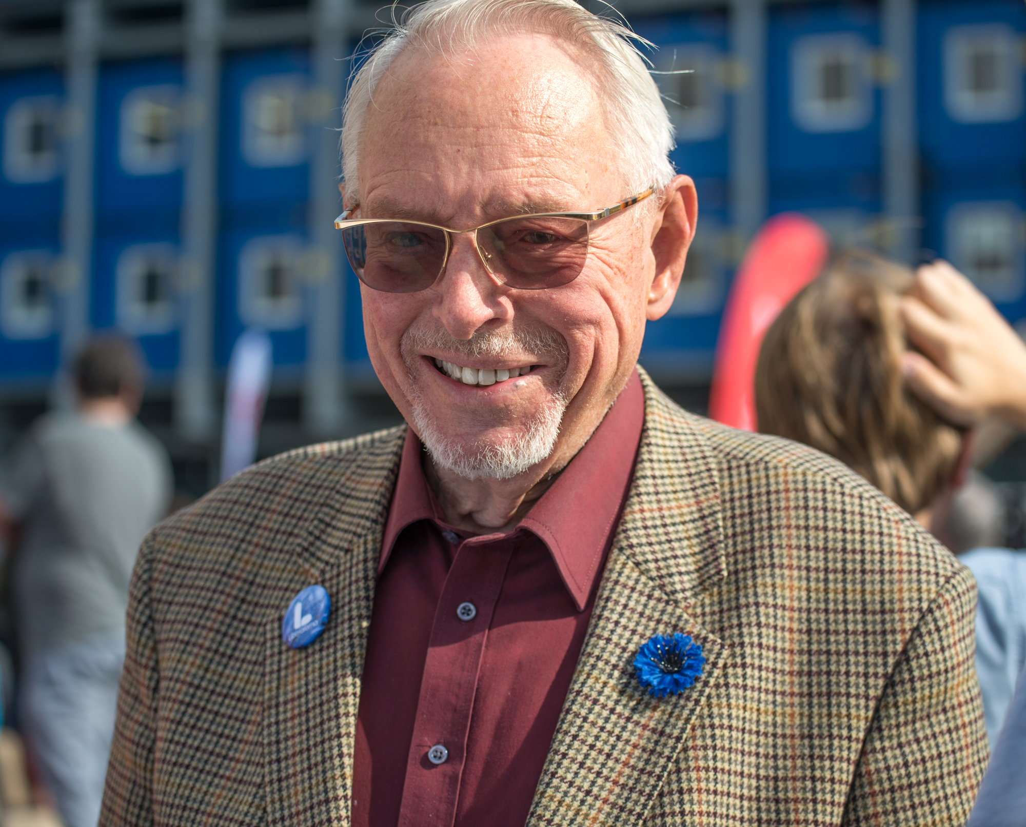 Hadar Cars at Sergel's square in Stockholm the day before the election day, September 8, 2018.